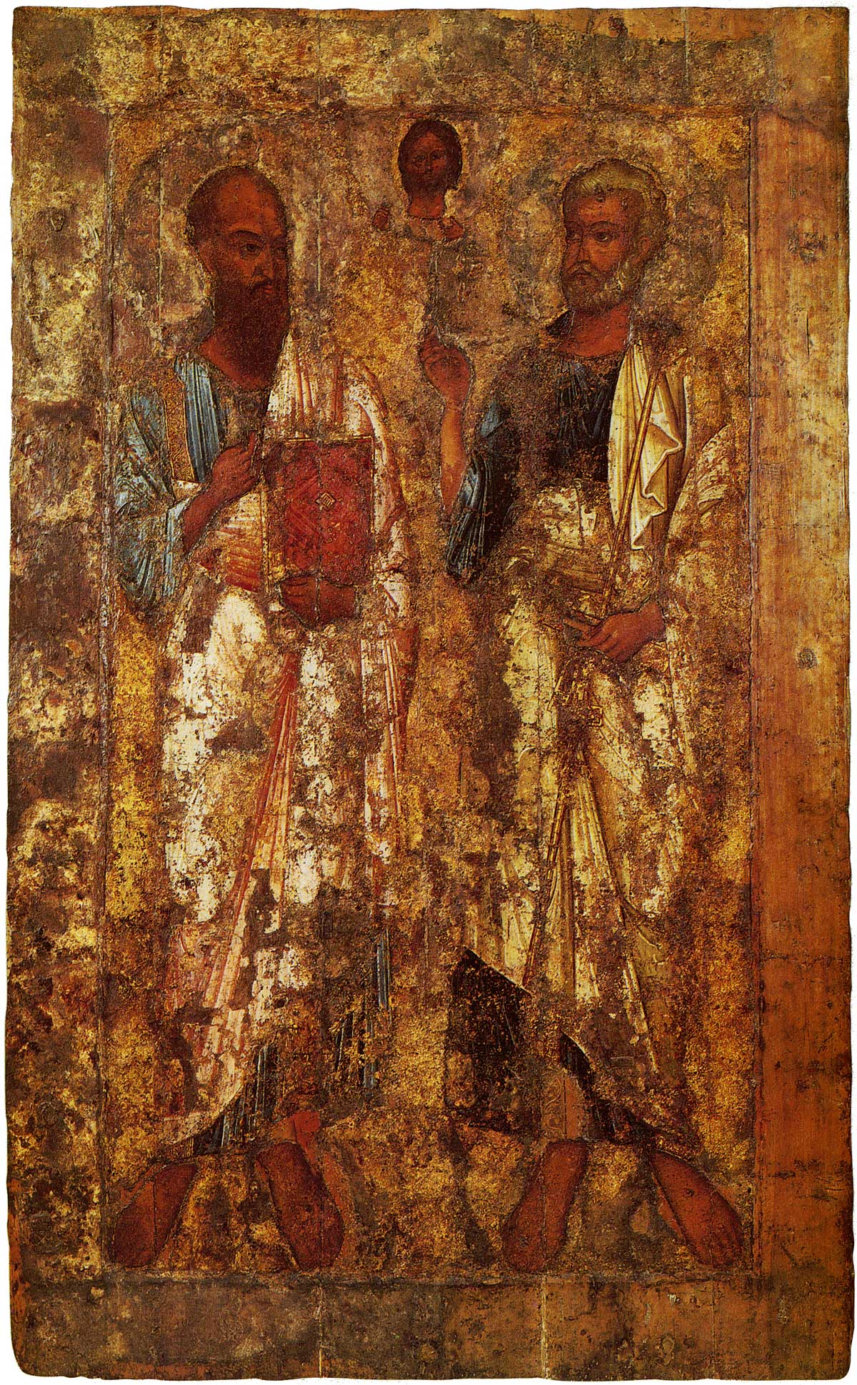 Icon of Sts. Peter and Paul from Saint Sophia Cathedral in Novgorod